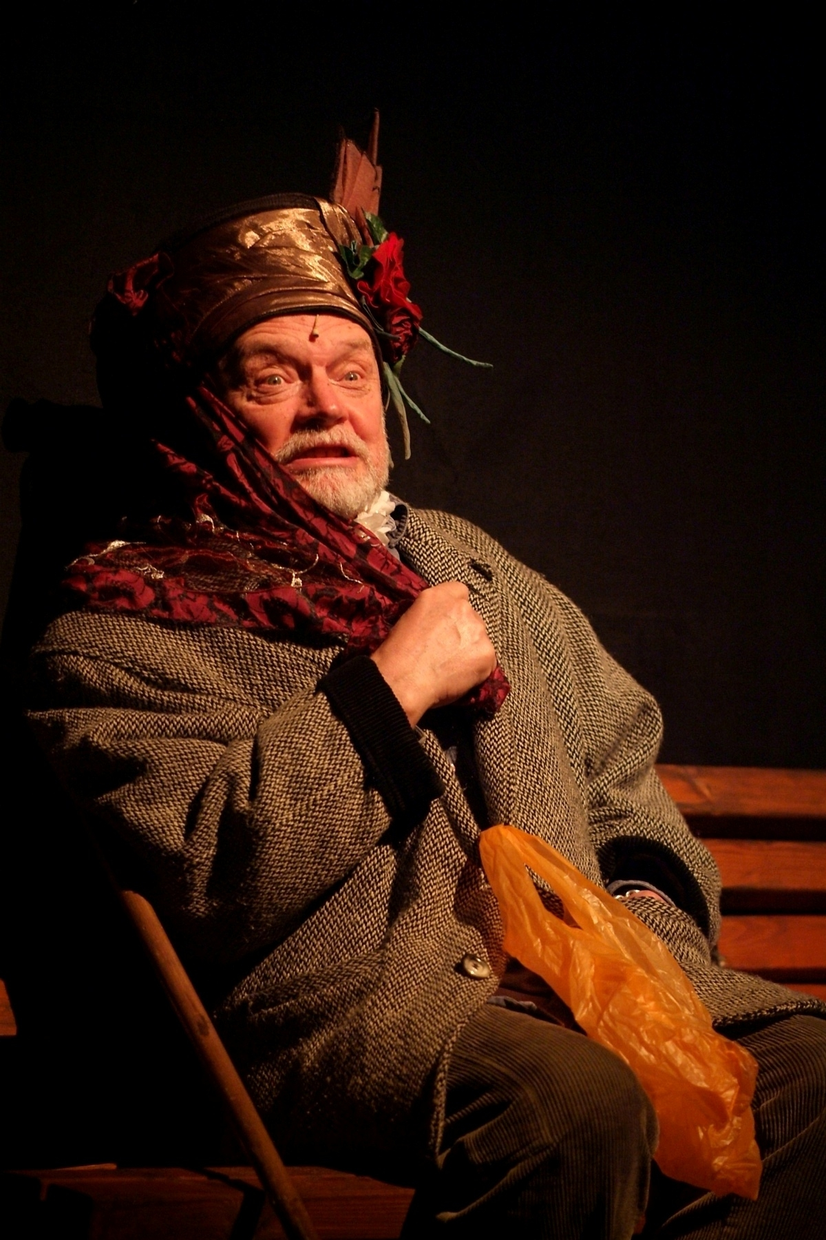 Actor Boris Ahanov, Gesher Theater